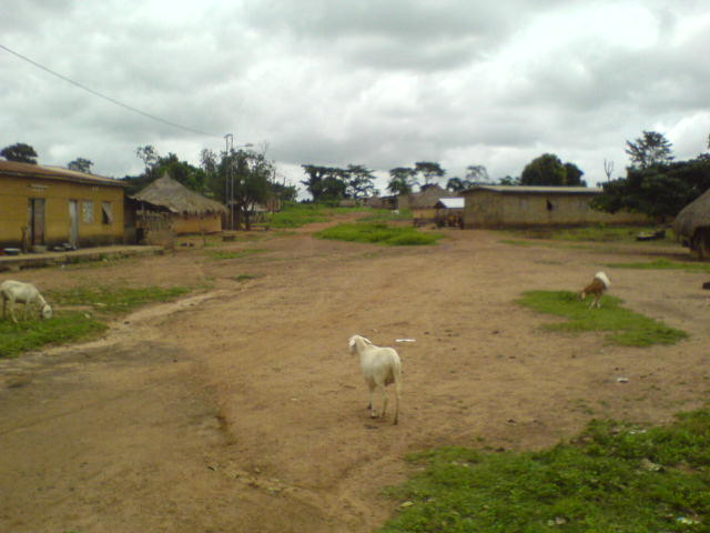 Entrée nord du village de Gbogolo